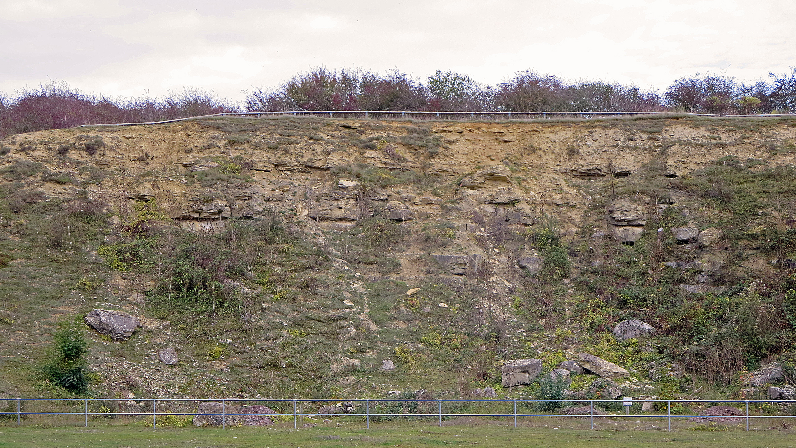 Eastern face of the Kirtlington Quarry (Washford Quarry), a disused limestone quarry. The sedimentary rocks exposed in this quarry bear a rich Middle Jurassic (Bathonian) fossil fauna, including terrestrial microvertebrates. The eastern face exposes marls of the Forest Marble Formation at the top (yellowish weathering rock) underlain by limestones of the White Limestone Formation (thickly bedded, darker weathering rock). The Forest Marble contains the Kirtlington Mammal Bed, the most productive microvertebrate horizon of the quarry.